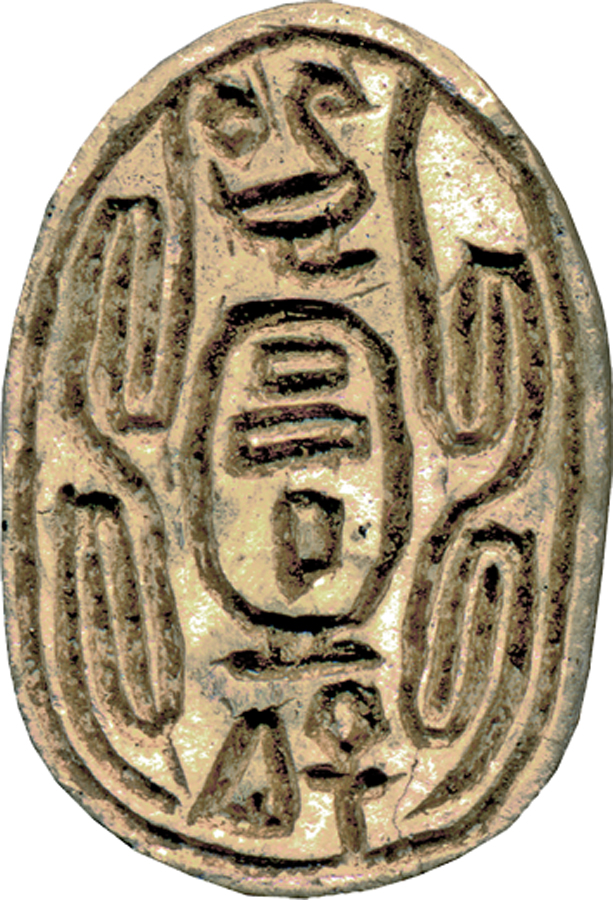 The ancient Egyptians believed that the dung beetle, the Scarabaeus sacer, was one of the manifestations of the sun god. Representations of these beetles were used as amulets, and for ritual or administrative purposes. This scarab is a typical example of the Second Intermediate Period. The bottom inscription contains the name and title of the King Sheshi, as well as a wish formula for his life. The highest point of the back is the pronotum (dorsal plate of the protorax). Two side-notches at shoulder height define the partition between pronotum and elytron (wing cases); these notches differ in shape and depth and are not aligned. The proportions of the top are slightly unbalanced, and the pronotum is asymmetrical Two incised circular lines define the partition between body and the oval base. The trapezoidal head is framed by borderlines and flanked by rectangular eyes. The trapezoidal side plates have curved outer edges, and the clypeus (front plate) a central base notch. The scarab is longitudinally pierced, was originally mounted or threaded, and used as an amulet. Such an amulet should on one side secure the existence and divine monarchy for this king, and on the other provide its private owner with his royal patronage. There are many scarabs with the name of king Sheshi (e.g. Baltimore, Walters Art Museum, 42.17 and 42.26), which were found in Egypt, Nubia, and Palestine; nevertheless, there are no other monuments or historical records. It is likely that the throne name of Sheshi was Maat-ib-Re, and scarabs with this name were similar popular and widespread. The identification of Sheshi with a Hyksos rulers or one of the Hyksos vassals is likely, but not positive. Furthermore, it was several times considered to interpret the name as a variant of the name of the Hyksos ruler Apepi.